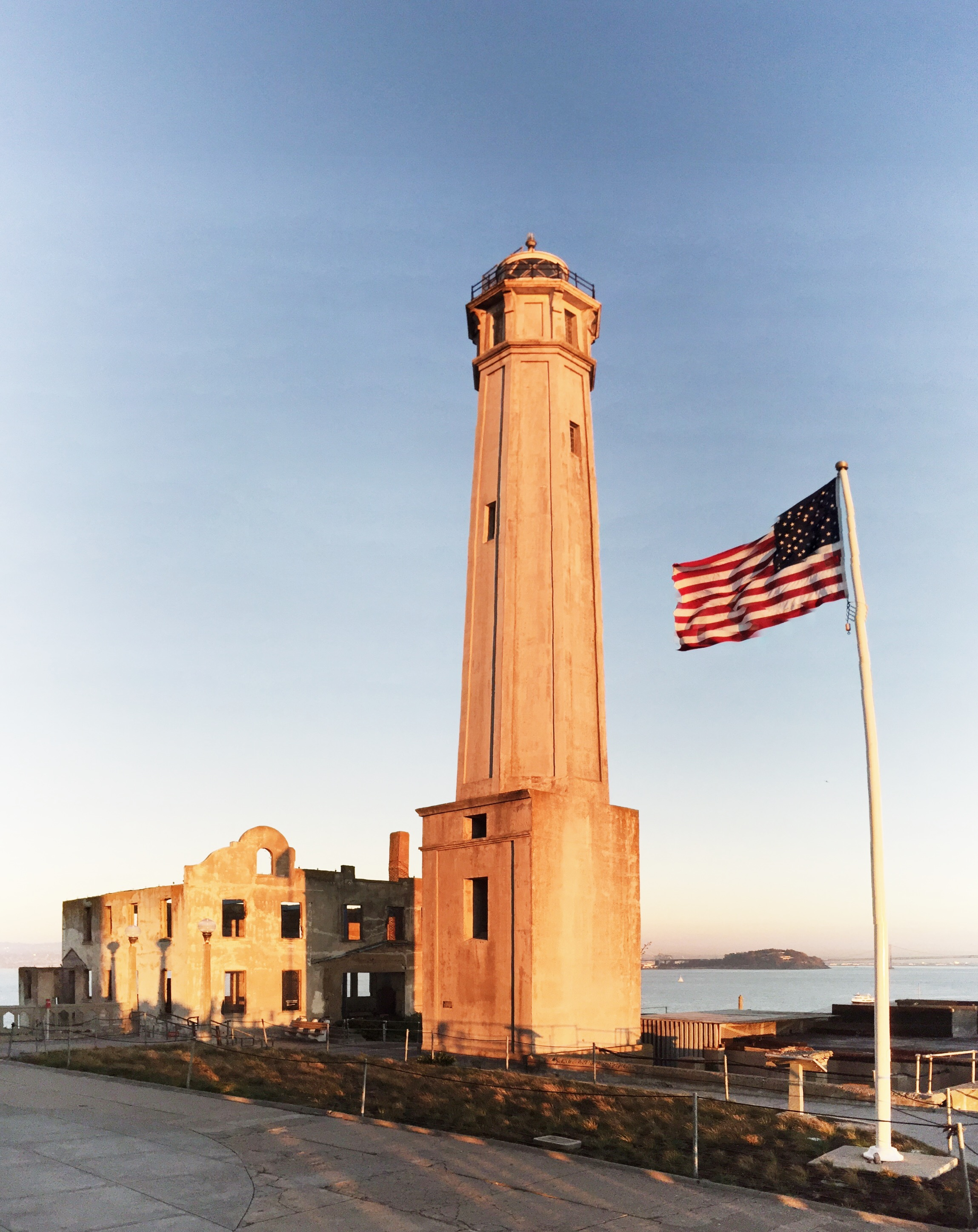 Alcatraz lighthouse, as photographed from ground level, Yerba Buena island in the background